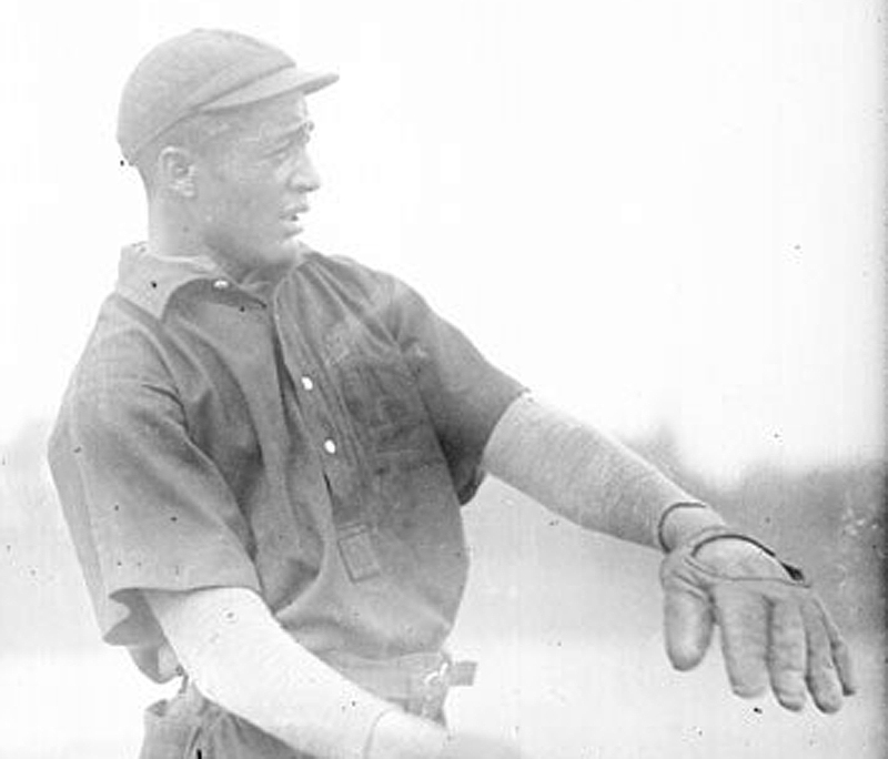 African American baseball player George Martin "Jess" Wright of the Leland Giants baseball team, cocking his arm to throw a baseball, standing in profile on a baseball field in Chicago, Illinois. This photonegative taken by a Chicago Daily News photographer may have been published in the newspaper. Cited as: SDN-055417, Chicago Daily News negatives collection, Chicago History Museum.